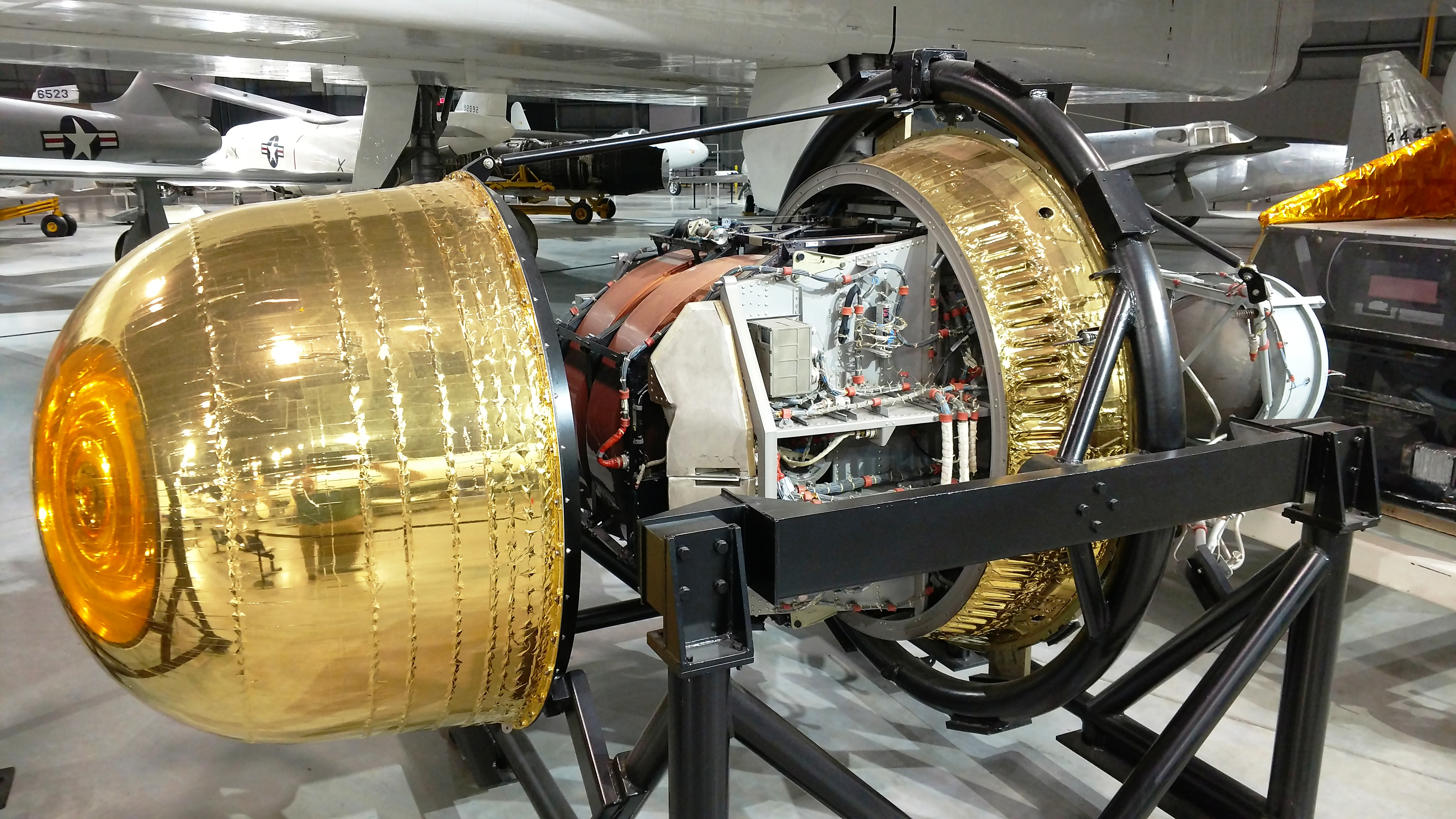 KH-9 Hexagon at the National Museum of the United States Air Force